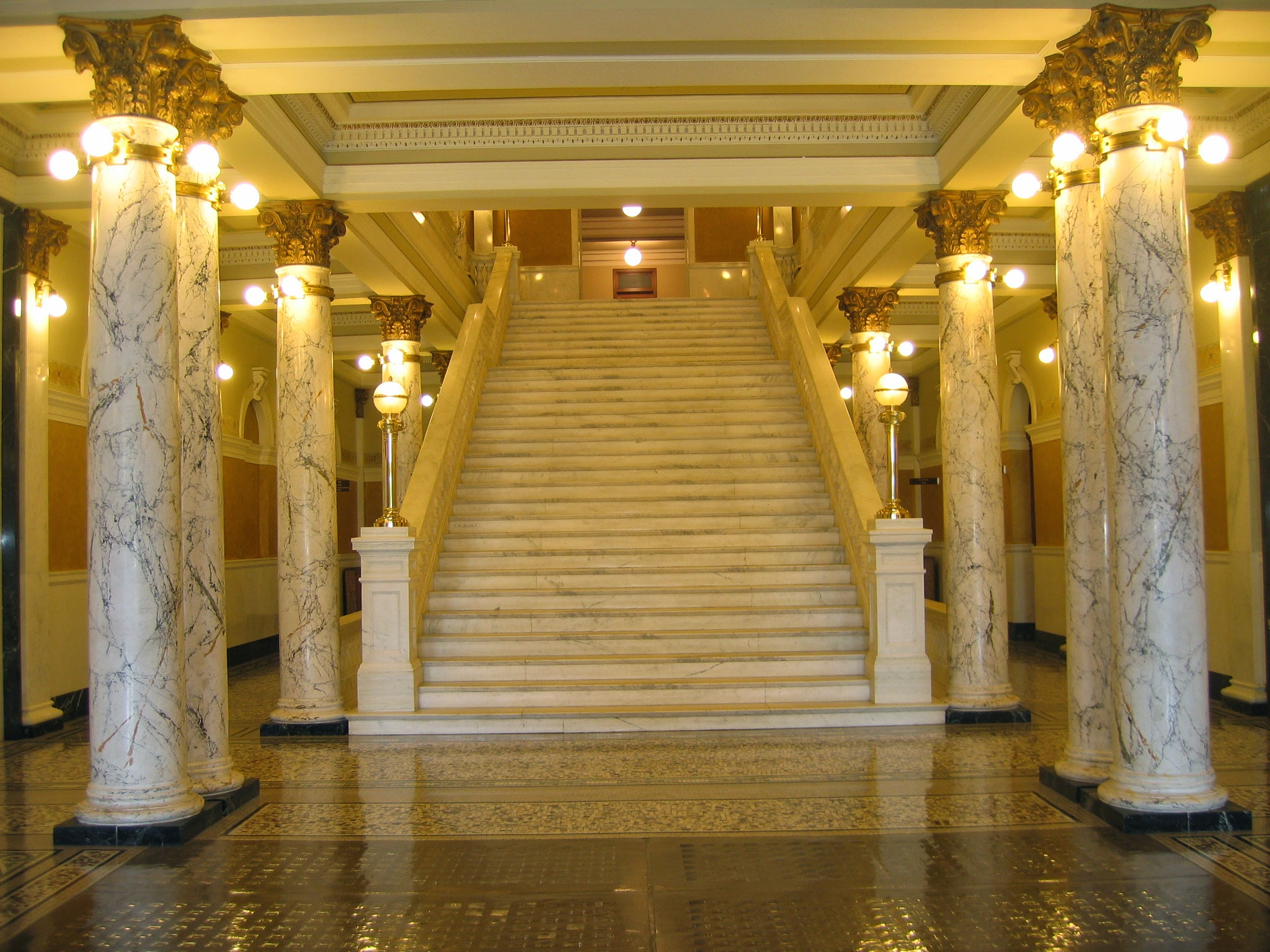 Interior of South Dakota State Capitol building, Pierre, South Dakota